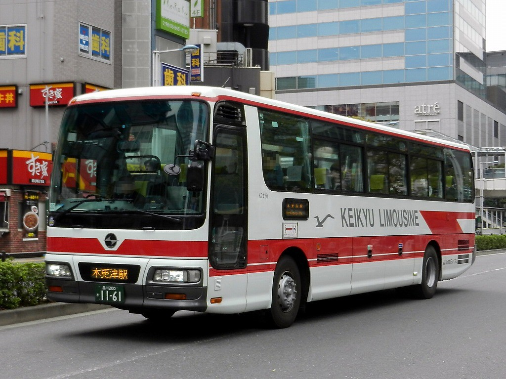 Keihin Kyuko bus (Keihinjima depot) Isuzu Gala (KL-LV781R2)